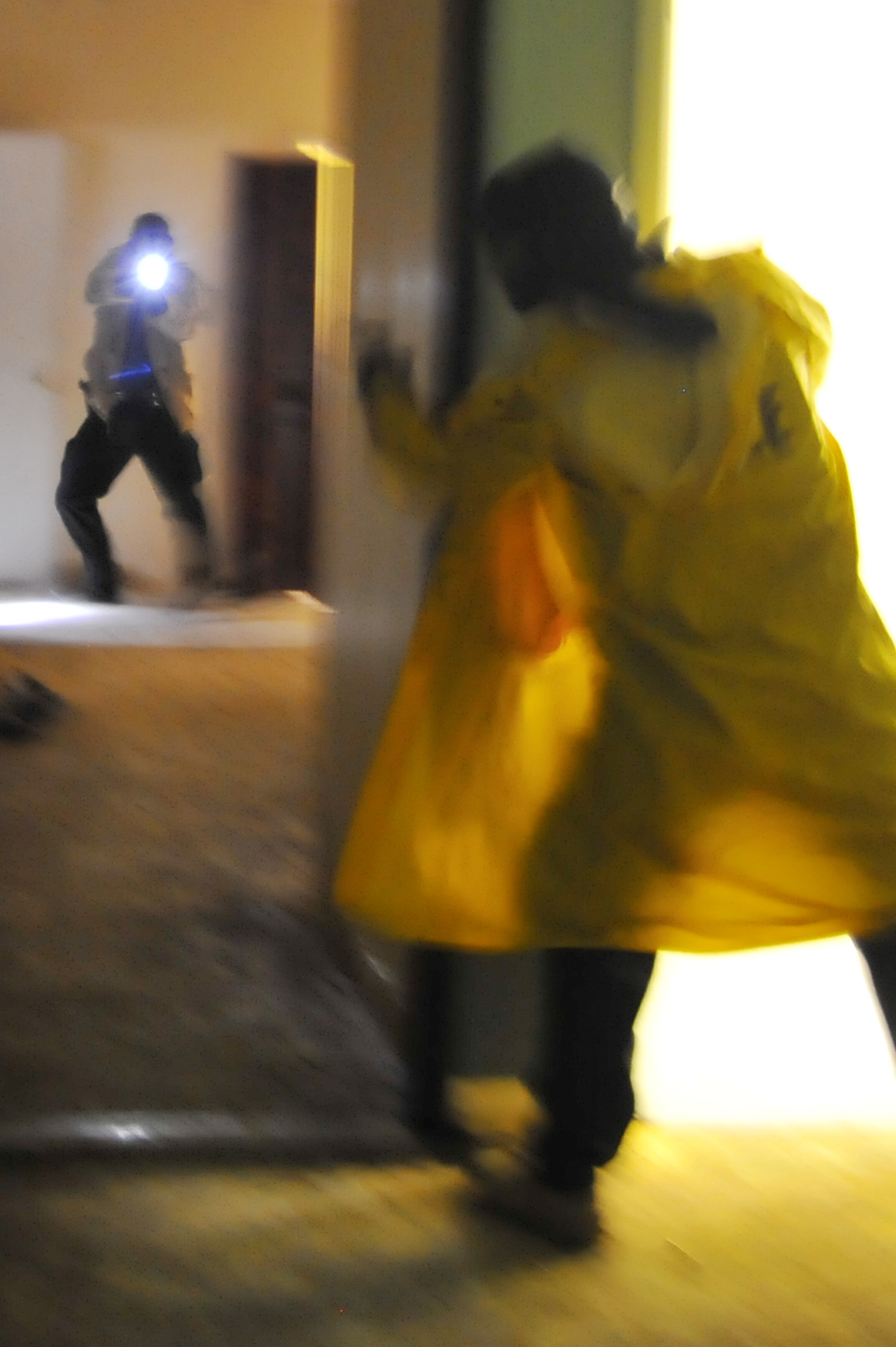 Members from the 1st Special Operations Security Forces Squadron, Hurlburt Field, Fla., and the Fort Walton Beach Police Department, conduct active-shooter training in an office building in Fort Walton Beach, Fla., July 8, 2010. This training ensures Airmen and FWBPD officers receive proper training on reacting to an active shooter incident.